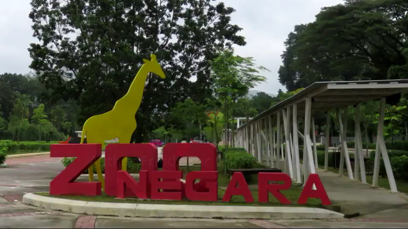 Monument at Zoo Negara Malaysia